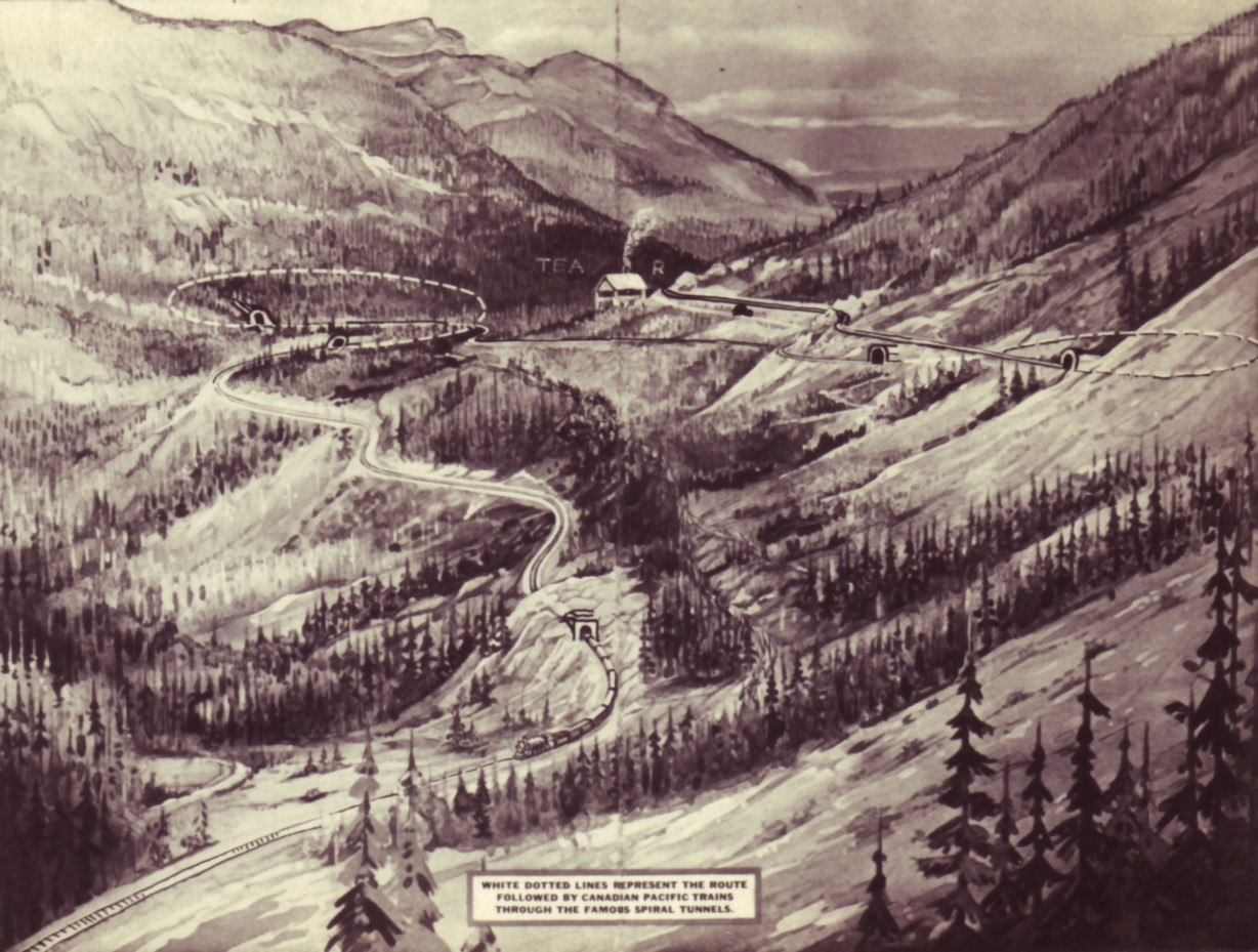 Detail from original real-photo postcard (re-touched in original) from "CKC", Toronto, (Canadian Kodak Company) depicting the Spiral Tunnels, British Columbia. "1908" taken from descriptive image caption.